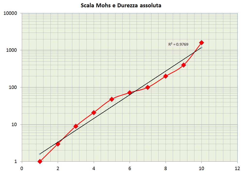 Mohs scale vs absolute scale